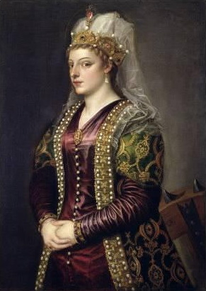 Portrait of Princess Theofilia of Morea and Achaea, Countess Palatine of Cephalonia and Zande, Duchess of Apulia. Or Caterina Cornaro (1454-1510) as Saint Catherine of Alexandria